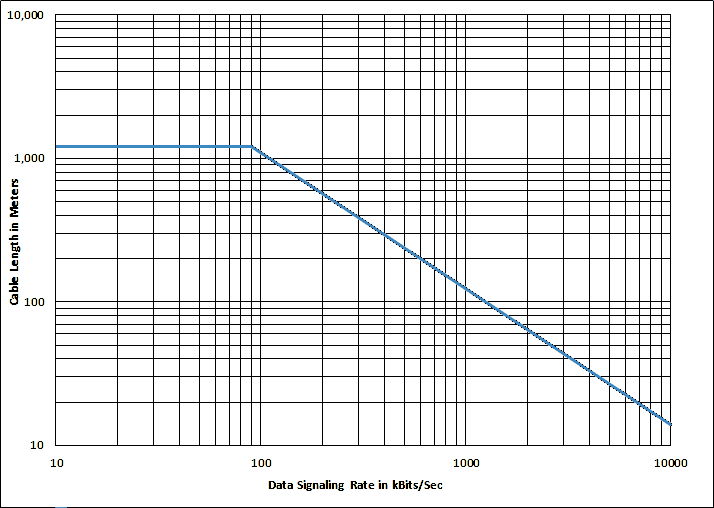 Data Rate / Line Length chart from RS-422 Annex A (This chart is not in RS-485) This chart is not an absolute limit, but a conservative guide based on empirical data of 24AWG telephone cable. Cable length may be extended from this chart. Chart created with Excel from following data: Cable Length in Meters Data Signaling Rate in kBits/Sec 10000 1200 90000 1200 10000000 14 .